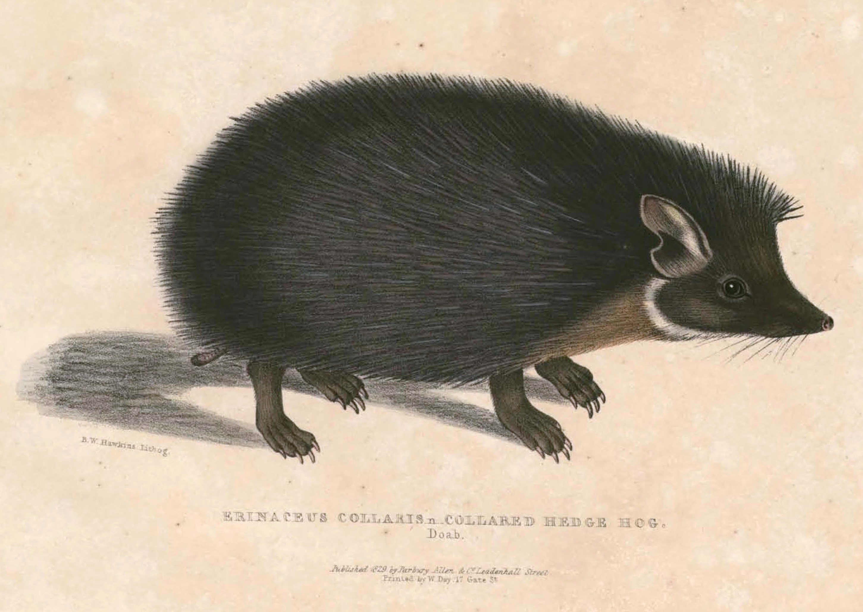 « Erinaceus collaris » = Hemiechinus collaris (Indian Long-eared Hedgehog)